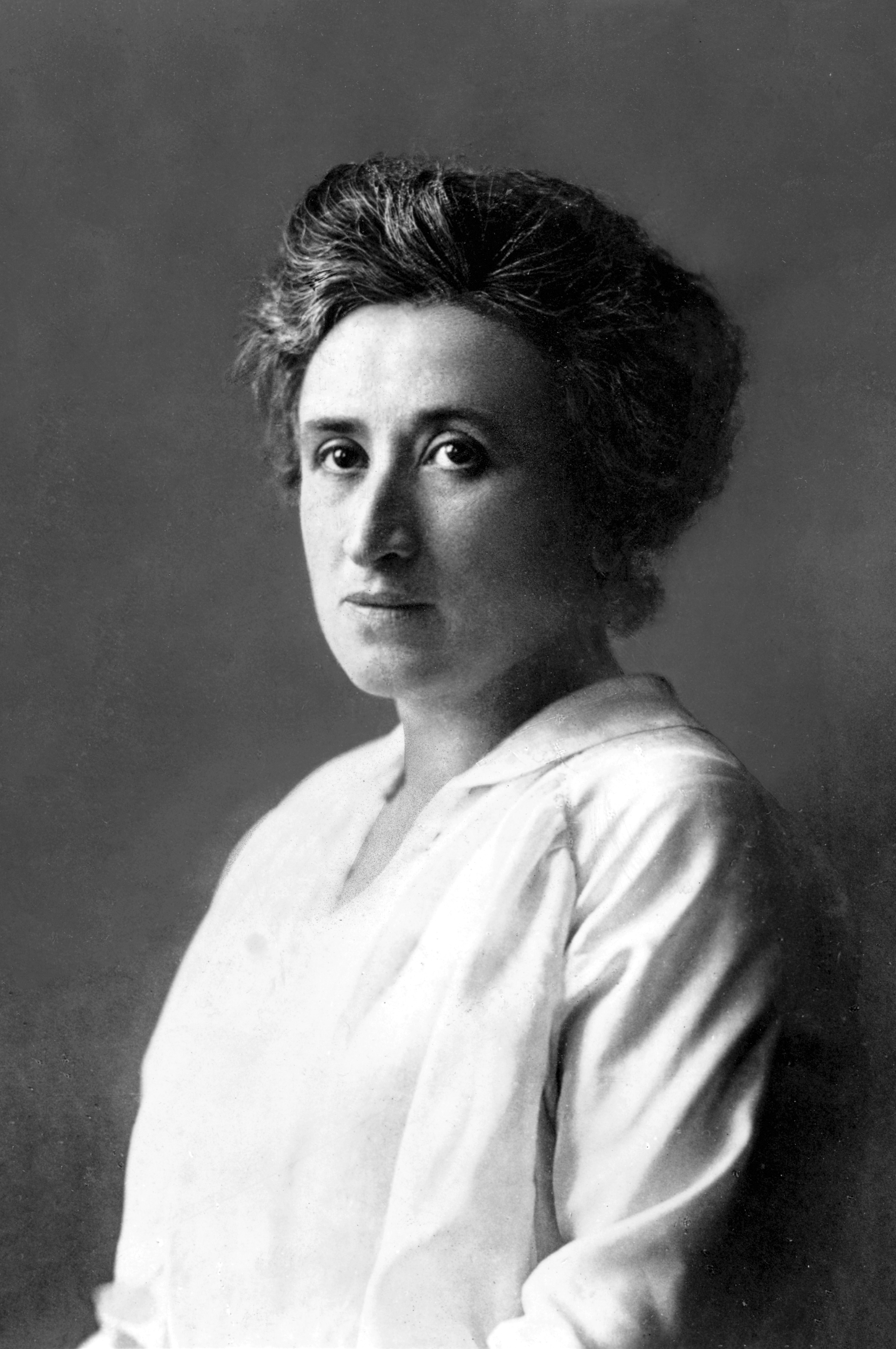 Portrait of Rosa Luxemburg.